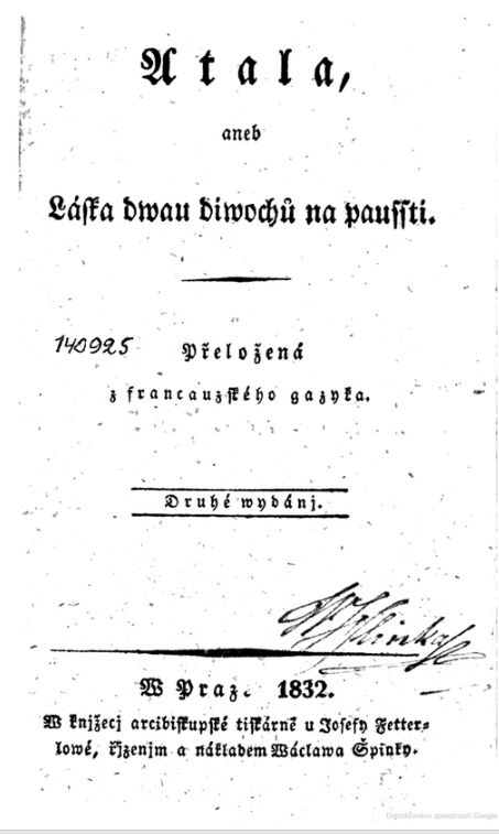 Atala, Czech Edition 1832